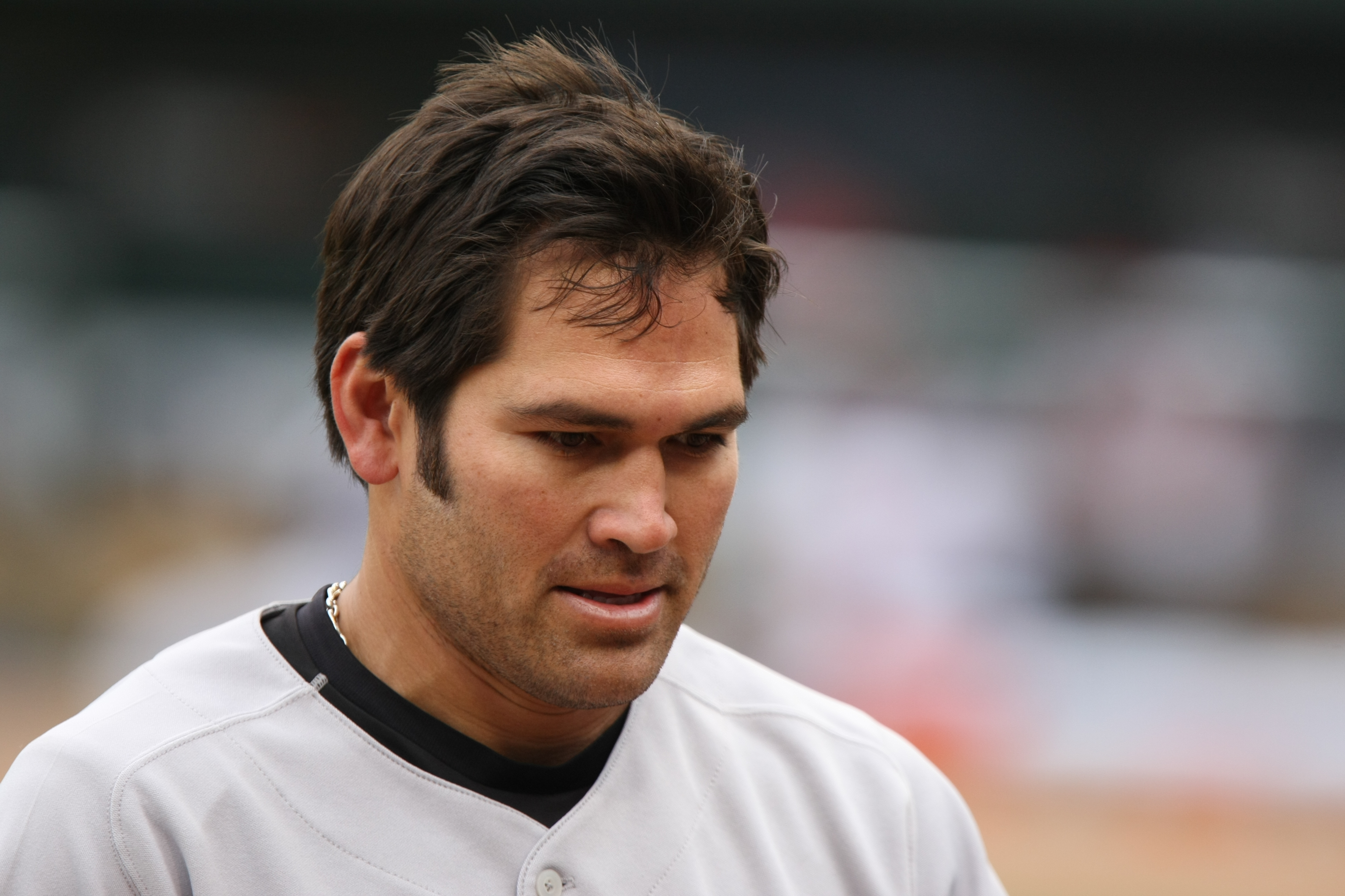 baseball player as shot by photographer Keith Allison